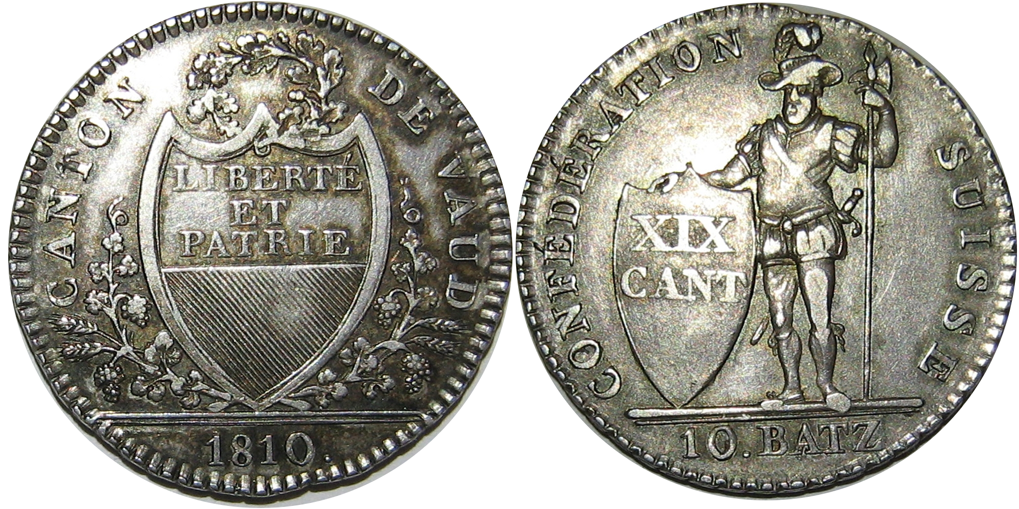 10 Batz, Canton of Vaud, Switzerland, 1810